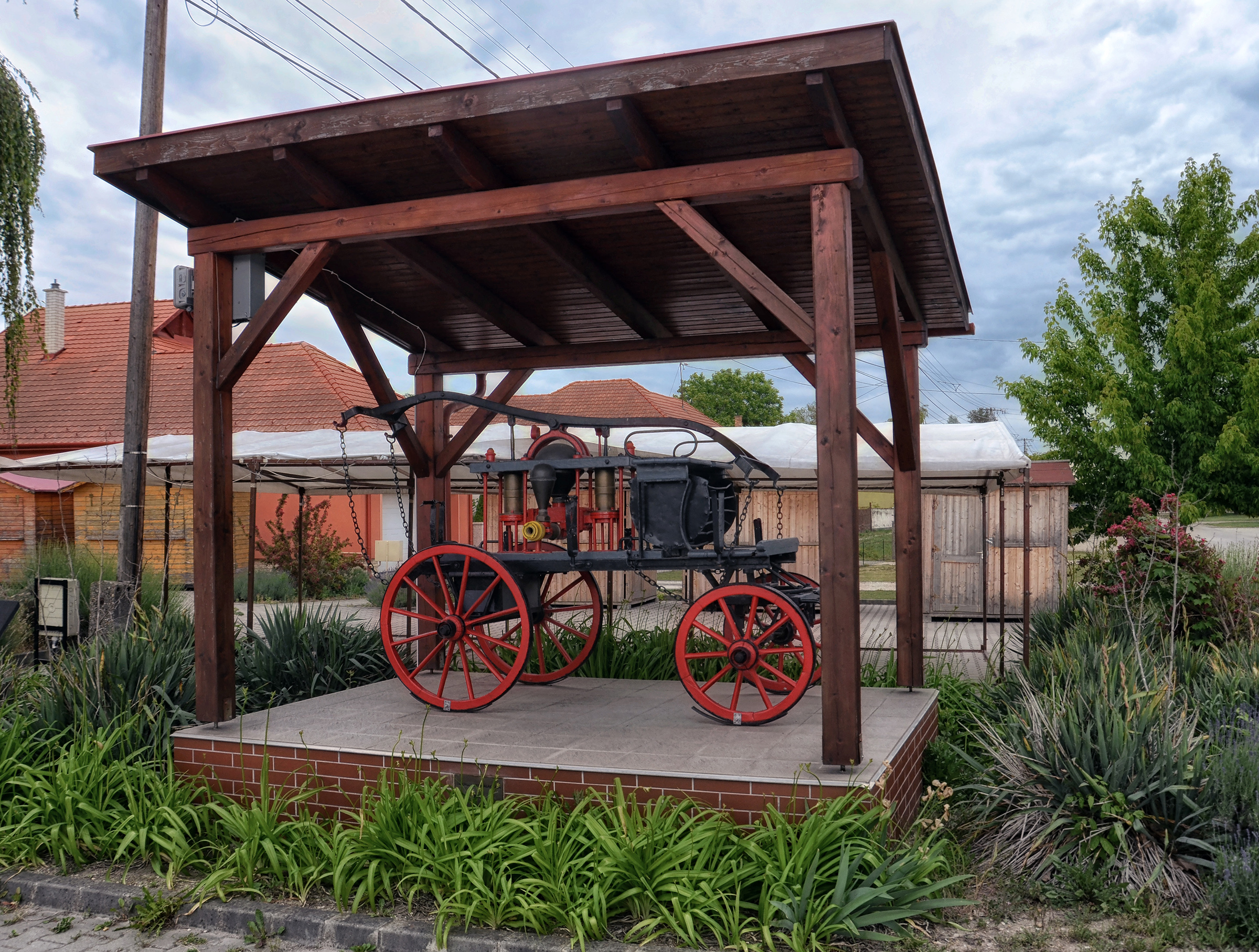 Old fire-engine installed in Abda, Hungary